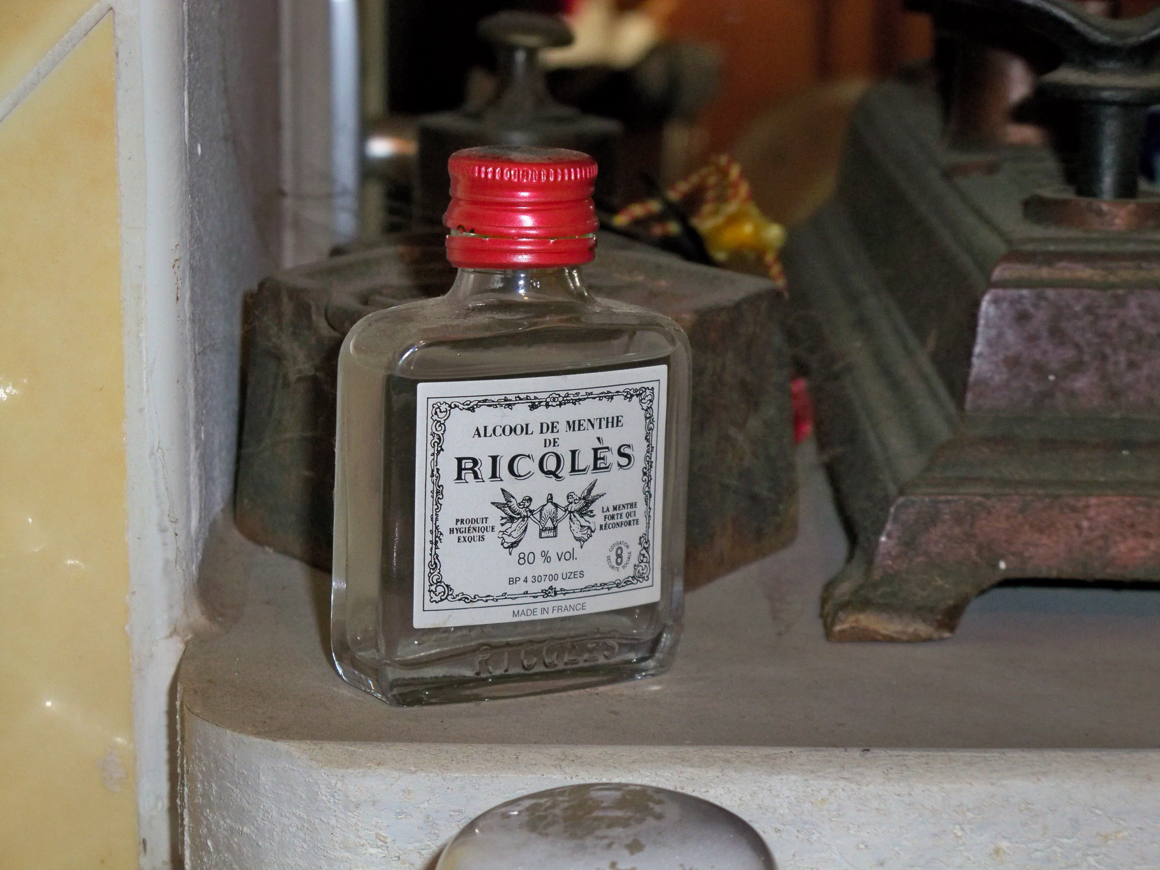 medicinal mint spirit from Ricqlès